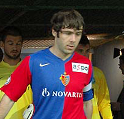 Ivan Ergić of FC Basel.